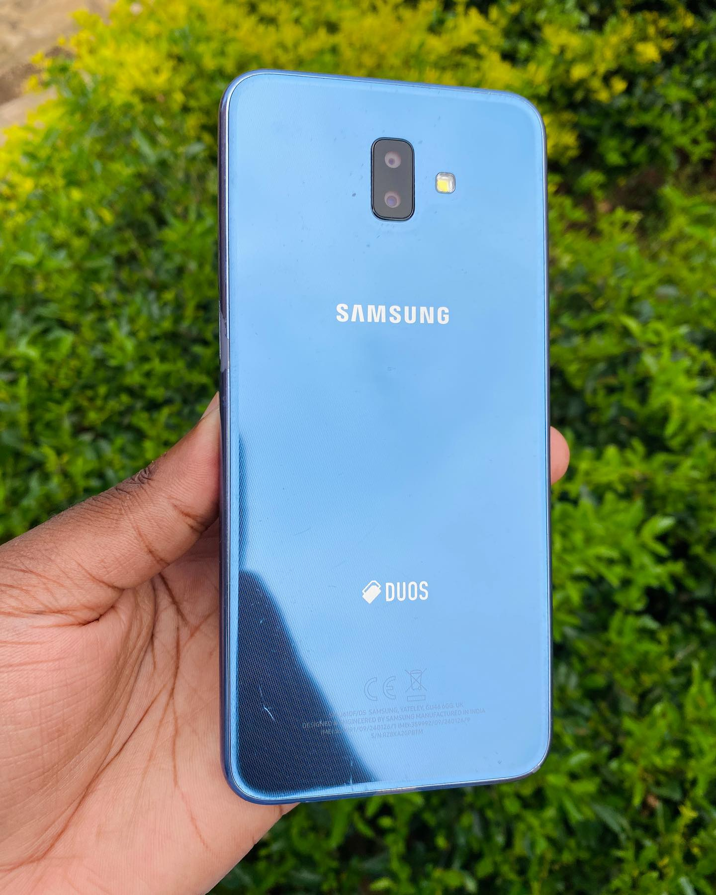 Samsung Galaxy J6+ is a mid range Android smartphone produced by Samsung Electronics in 2018.